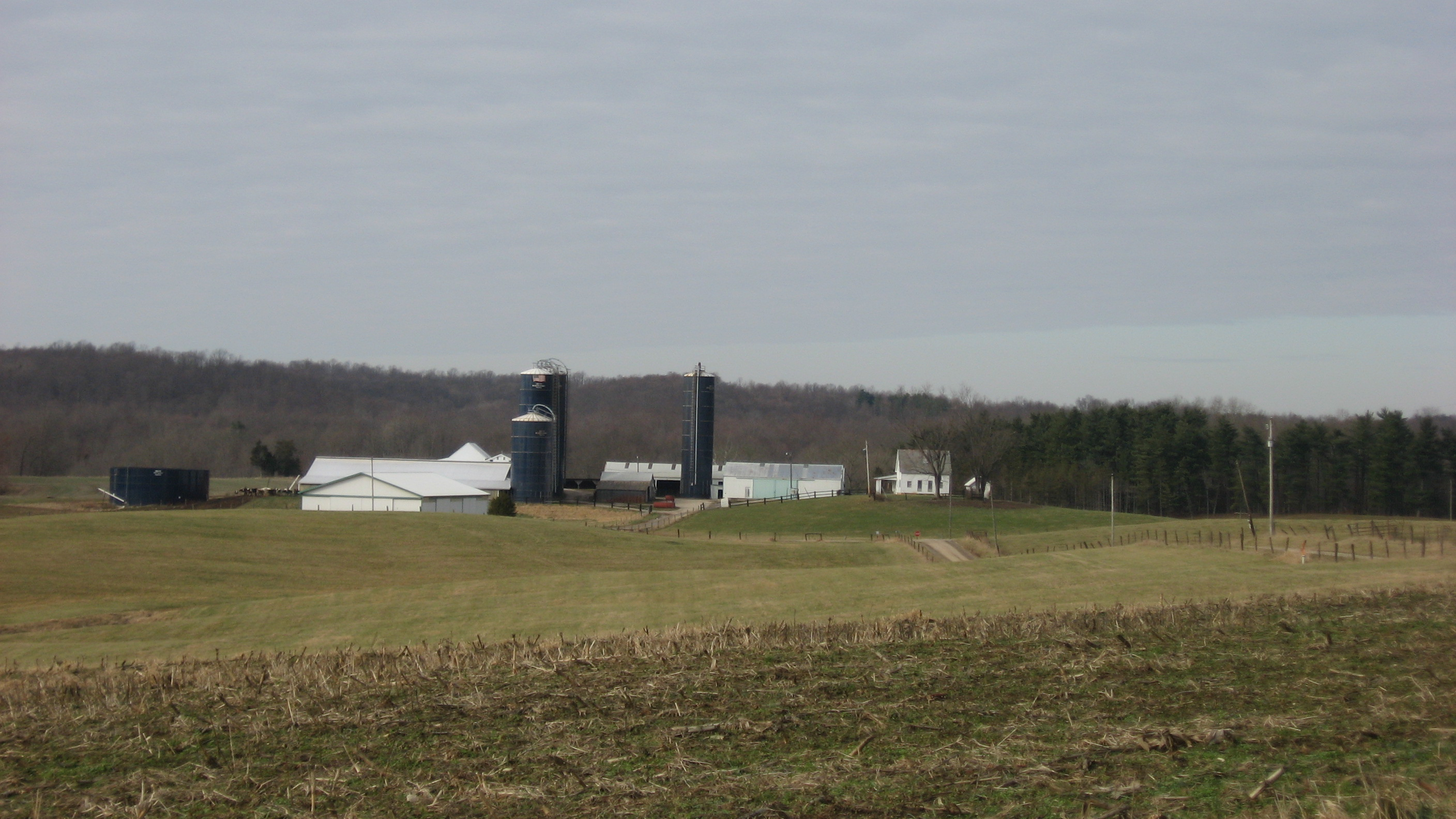 A farm in northeastern Deerfield Township, Morgan County, Ohio, United States. Photo is taken from McCune Road looking west toward Smith Road; the Smith Family Farm is one of very few farms in one of Ohio's hilliest and most forested regions.